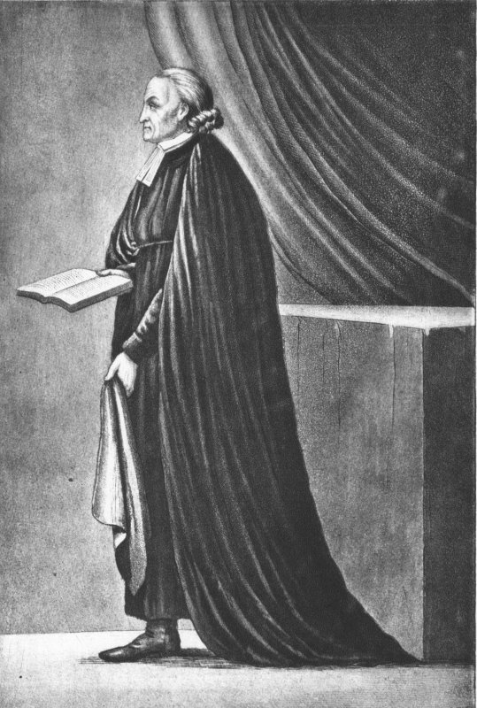 Etching of Henric Schartau (1757-1825)